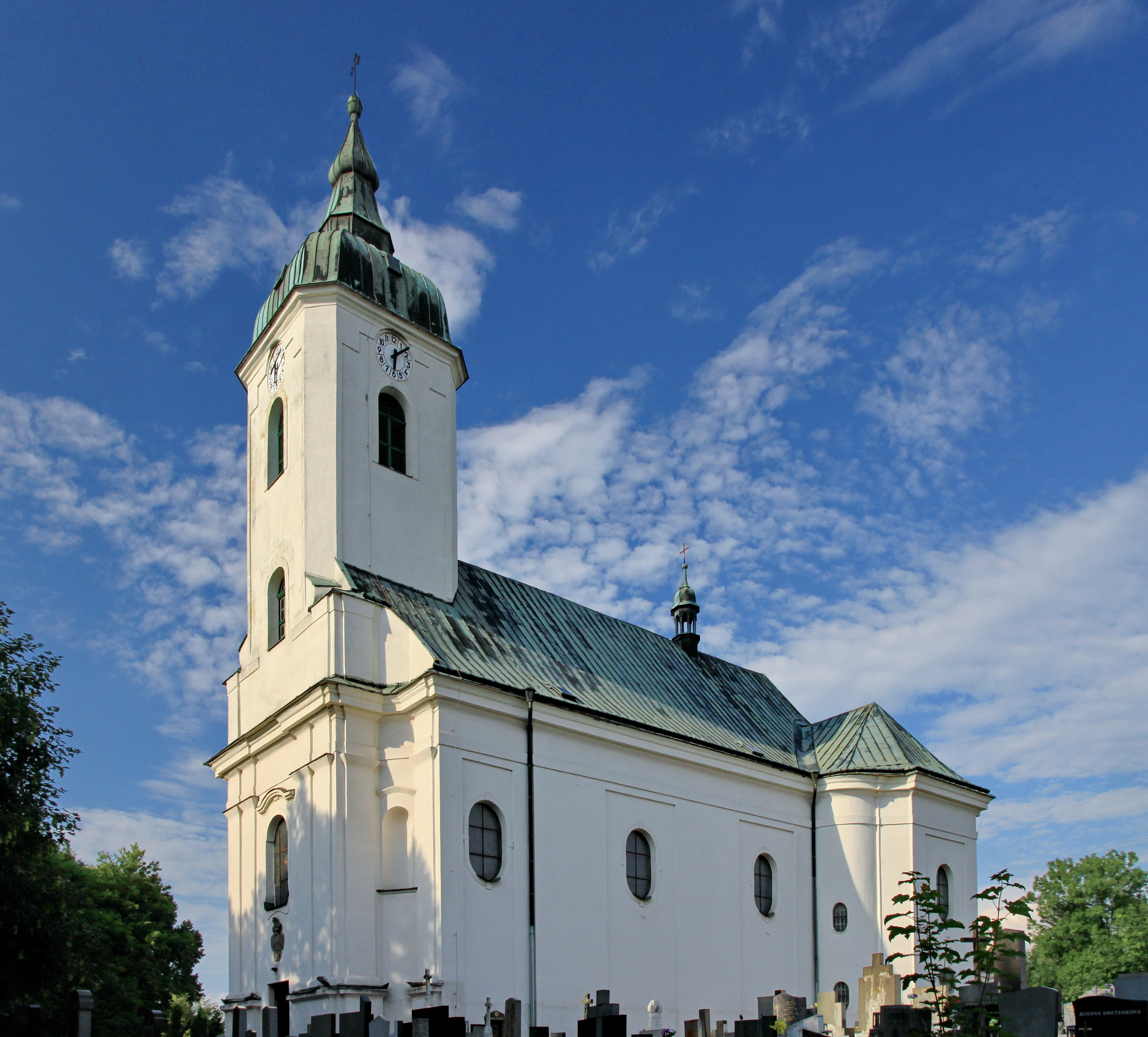 Church of Saint John the Baptist, Dolní Lutyně. Moravian-Silesian Region, Czech Republic.